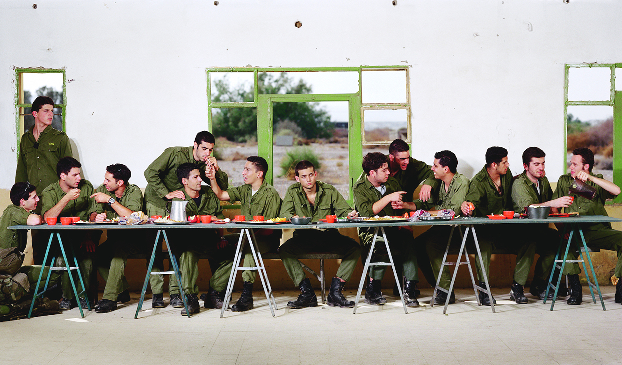 Photograph